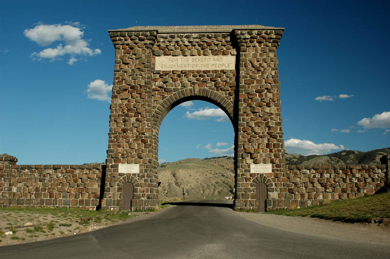 The Roosevelt Arch is located in Montana at the North Entrance of Yellowstone National Park. The arch's cornerstone was laid by Theodore Roosevelt. The placard reads "For the Benefit and Enjoyment of the People."